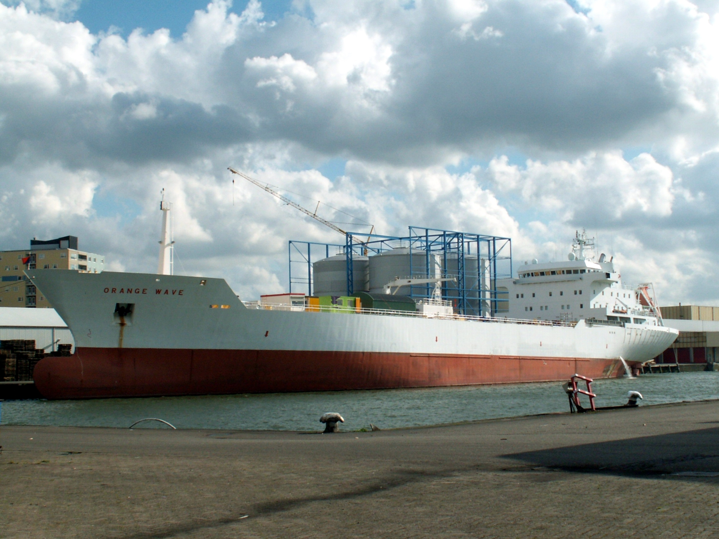 Orange Wave at Port of Rotterdam, Holland.